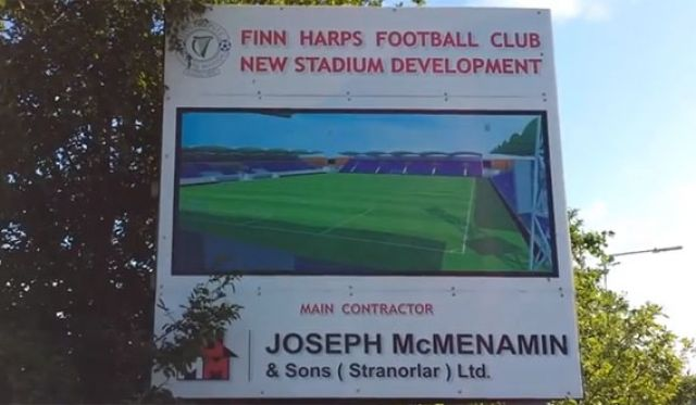 Artists impression